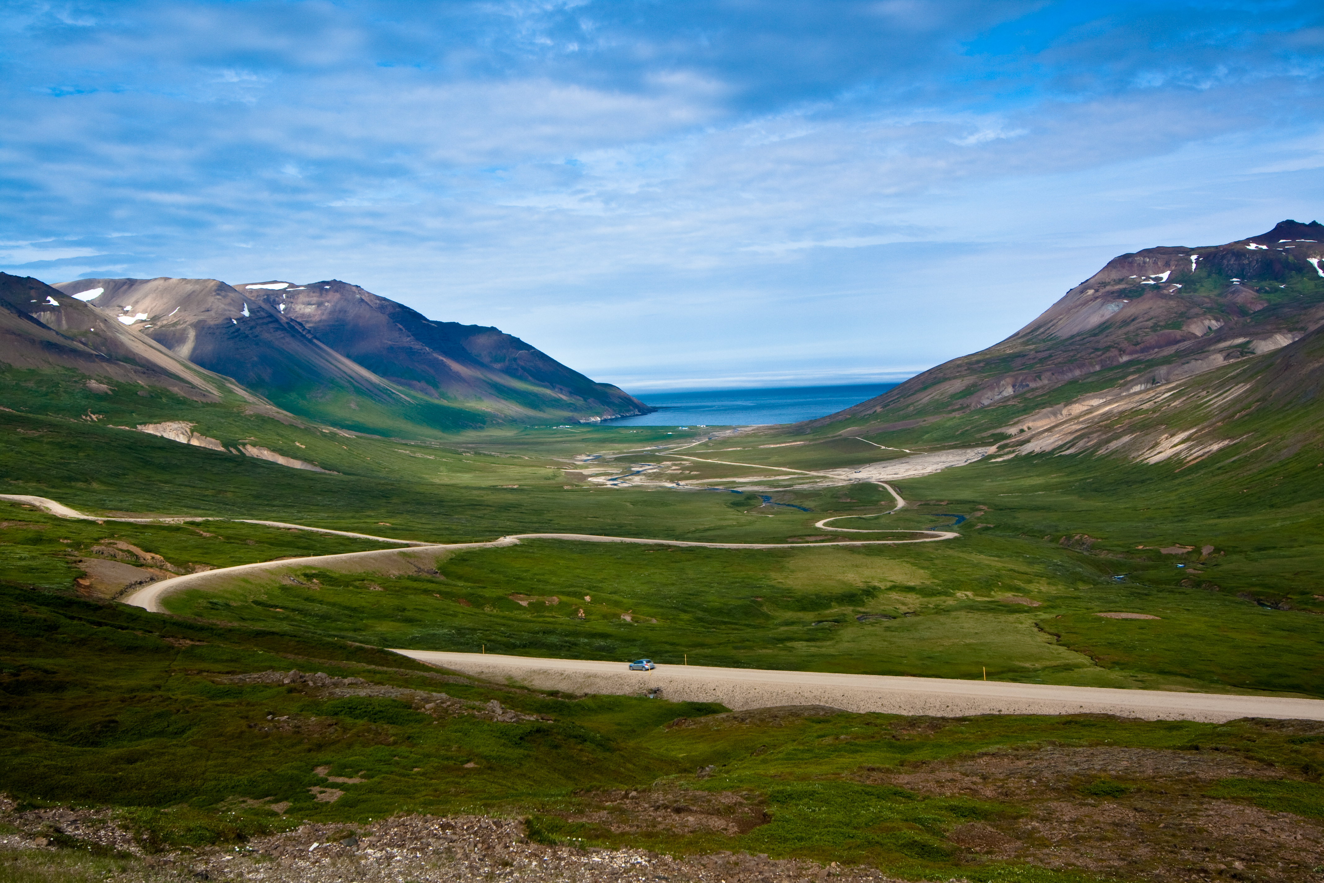 Road to the Borgarfjörður Eystri-1